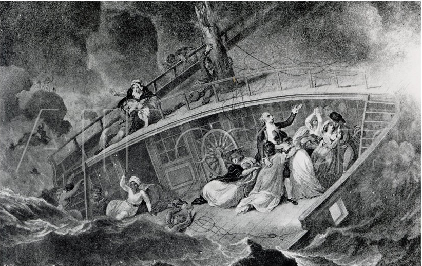 The Loss of the East Indiaman Halsewell (6 January 1786) by Robert Smirke (1752 – 5 January 1845)